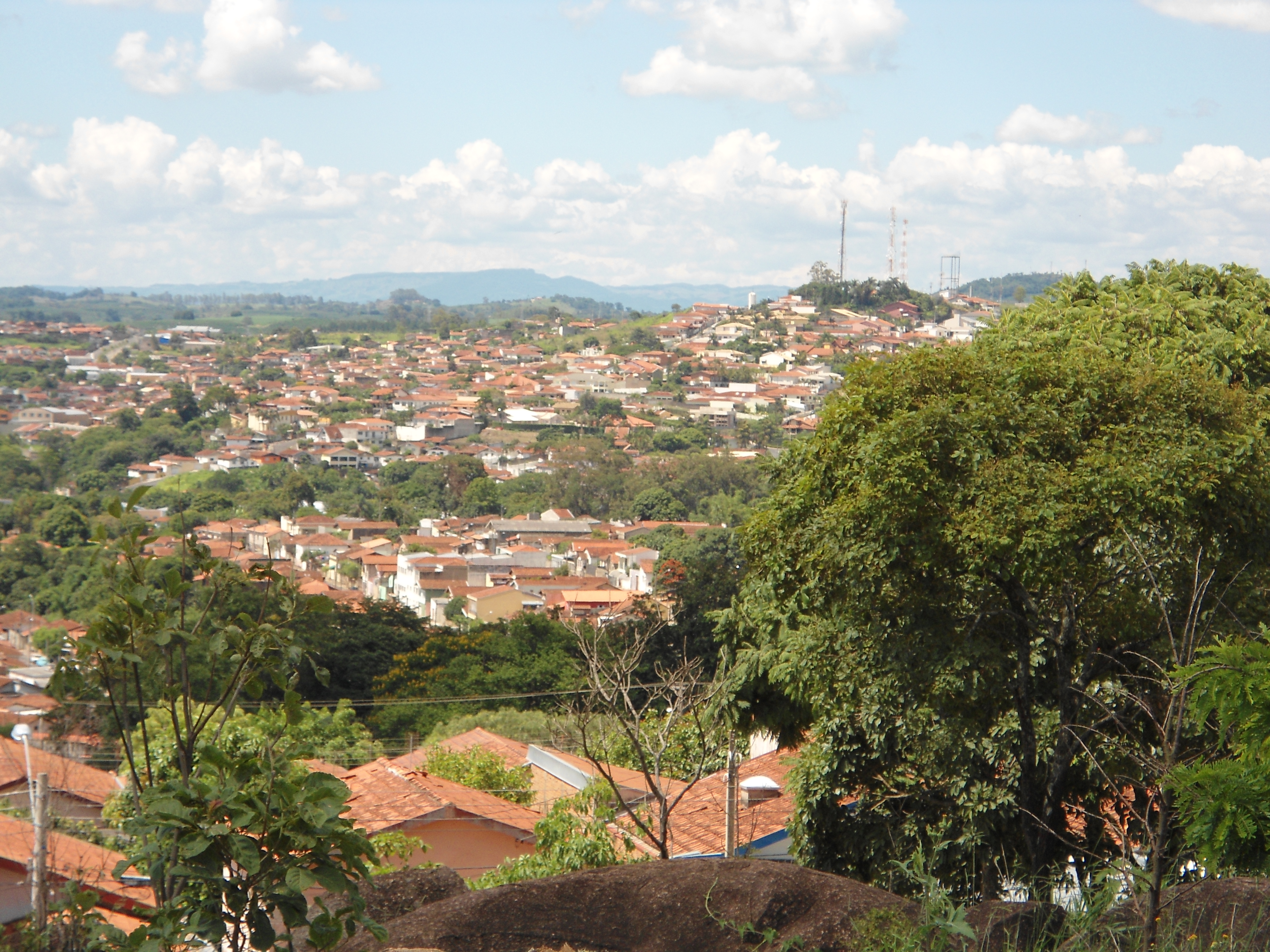 Vista da cidade